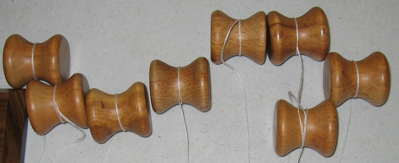 Picture of tama: weighted bobins to use on the Marudai or Takadai to make Kumihimo braids. Taken by Claire Cassan in March 2006.